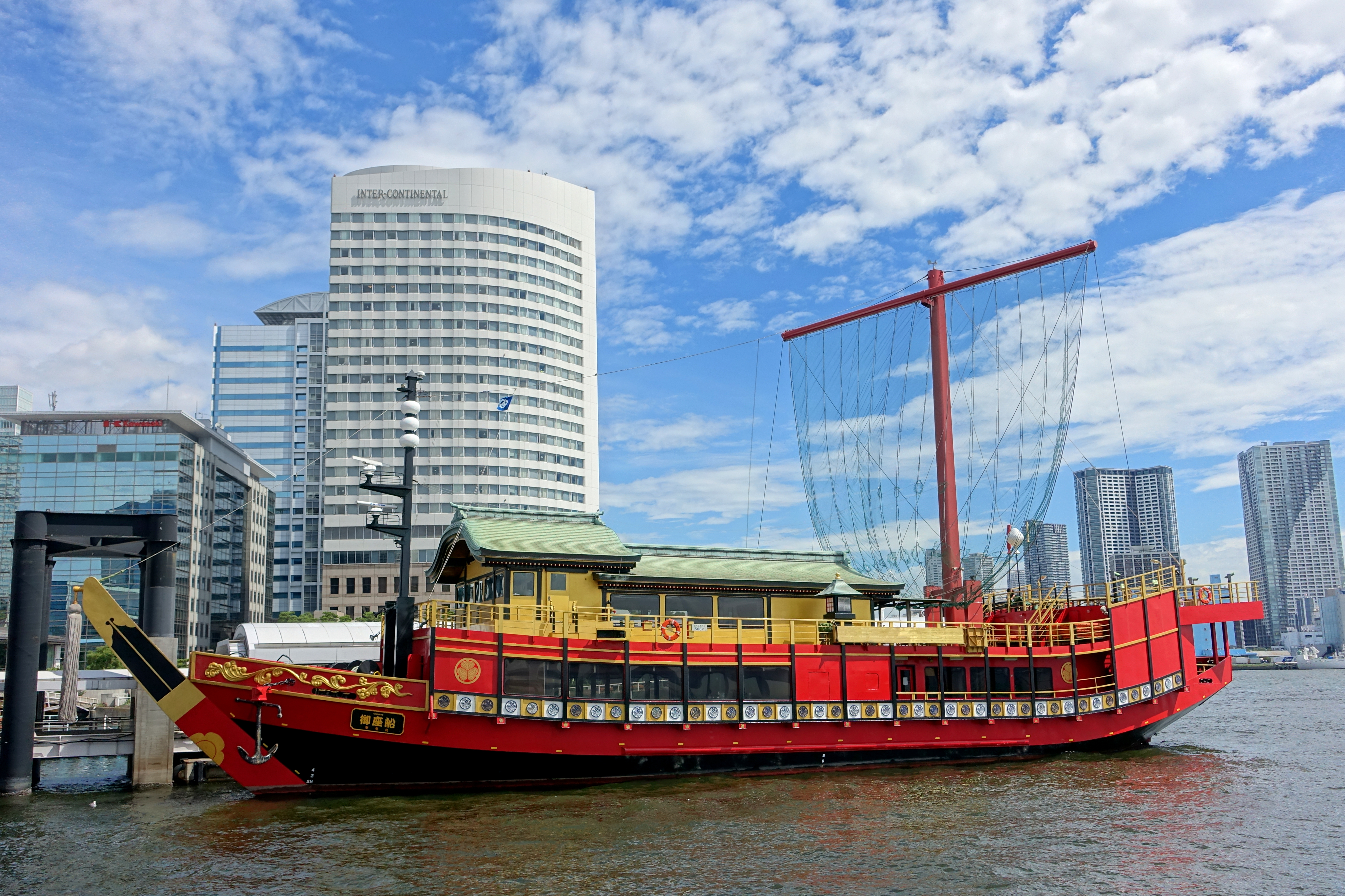 Gozabune Atake Maru (ship, 1986) - Tokyo, Japan.